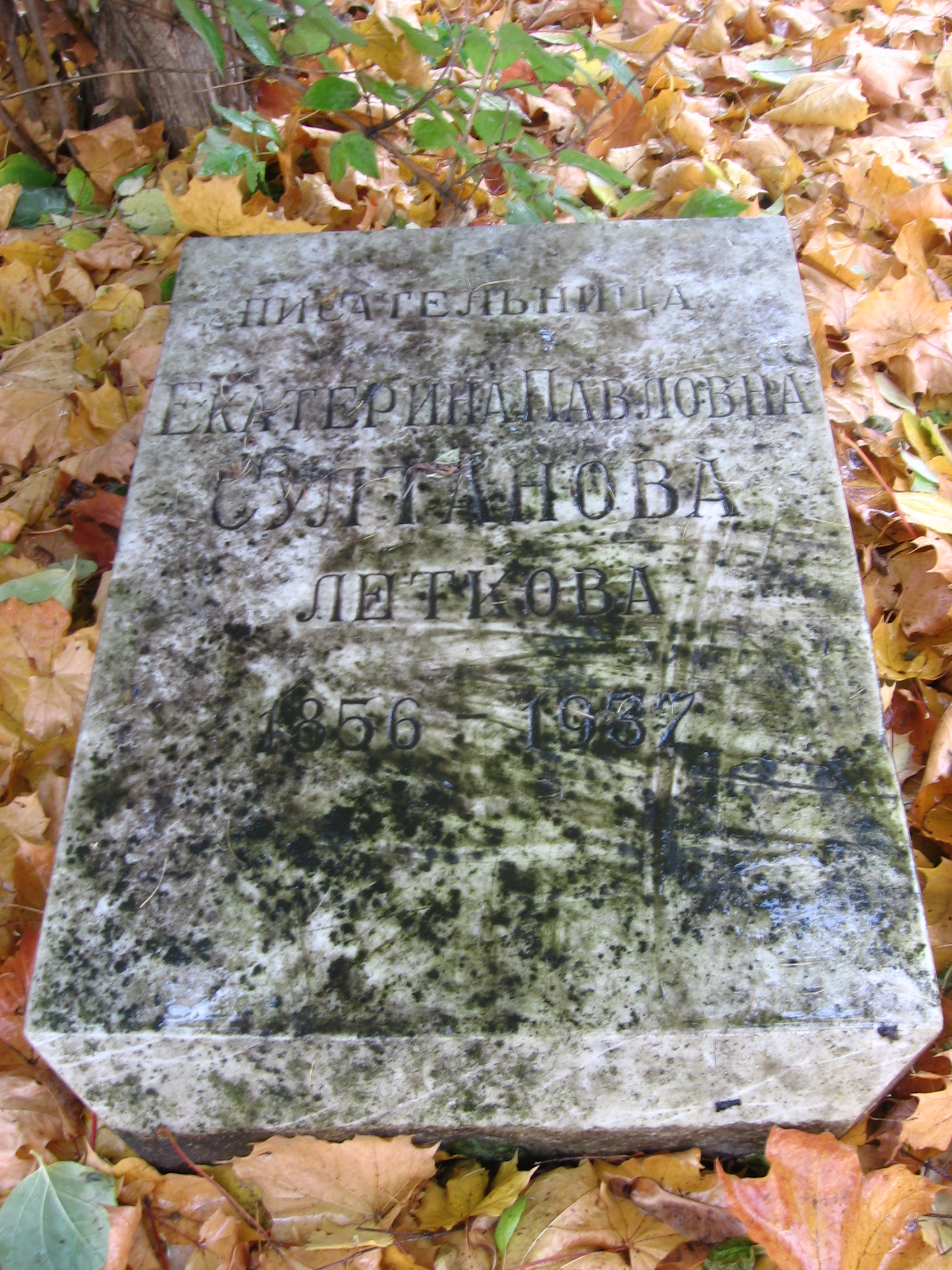 Grave of Ekaterina Sultanova-Letkova